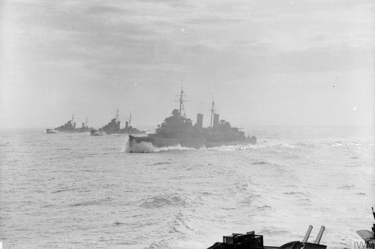 The cruisers : HMS EDINBURGH (Town class cruiser) HMS HERMIONE (Dido class cruiser) HMS EURYALUS (Dido class cruiser) steaming in line abreast whilst they escort a convoy (Operation HALBERD - convoy not visible).